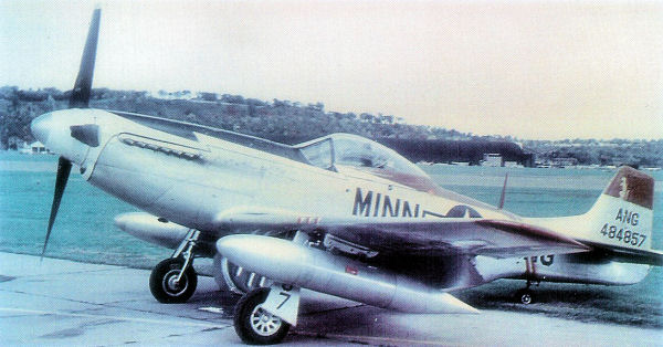 Air Defense F-51 of the 109th Fighter Squadron of the Minnesota Air National Guard